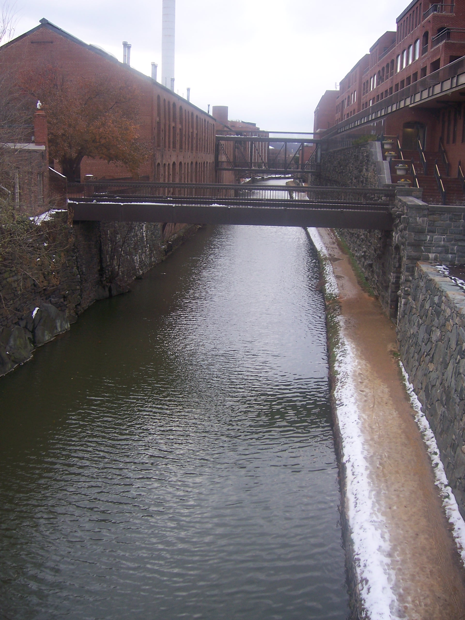 A picture taken by me of the C & O canal in Washington DC behind the Georgetown shops.